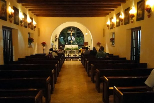 Modern church in Playa del Carmen